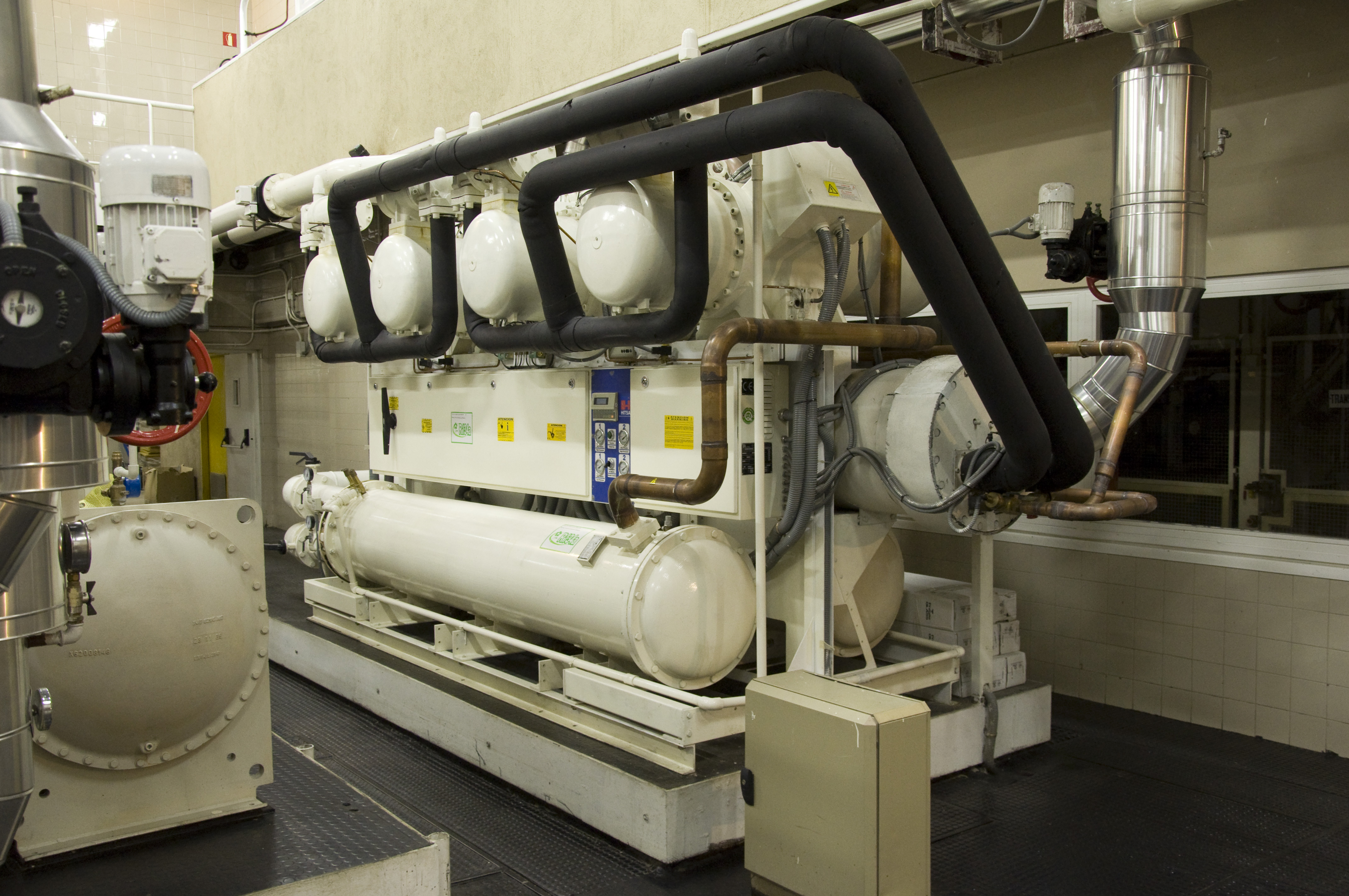 Water chiller